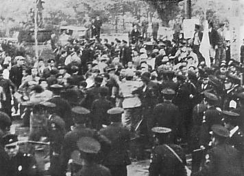 Hanshin Educational Incident